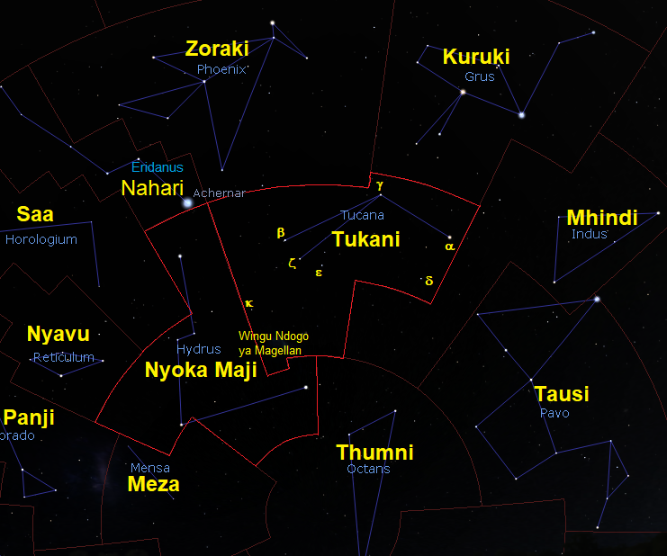 Constellations Tucana and Hydrus as seen from Tanzania, Swahili labelled Kiswahili: Kundinyota Nyoka Maji (Hydrus) jinsi zinavyoonekana kutoka Tanzania, majina kwa Kiswahili